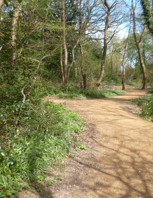 Path through Blundell's Copse. Blundell's Copse is a local nature reserve surrounded by urban Tilehurst. Recent restoration work has been done on the paths.